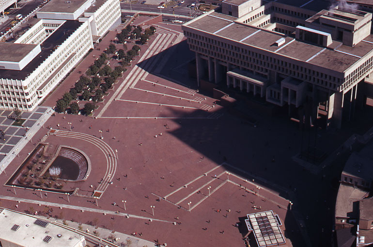 Title: Boston City Hall Plaza, from 1 Beacon Street Creator: Peter H. Dreyer Date: 1973 October Source: Collection 9800.007, Peter H. Dreyer slide collection File name: 9800007_119 Photographer: Peter H. Dreyer Rights: Public Domain, Please credit Peter H. Dreyer Citation: Peter H. Dreyer slide collection, Collection #9800.007, City of Boston Archives, Boston